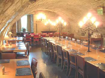 The dining room of Deans Court, University of St Andrews postgraduate hall of residence.